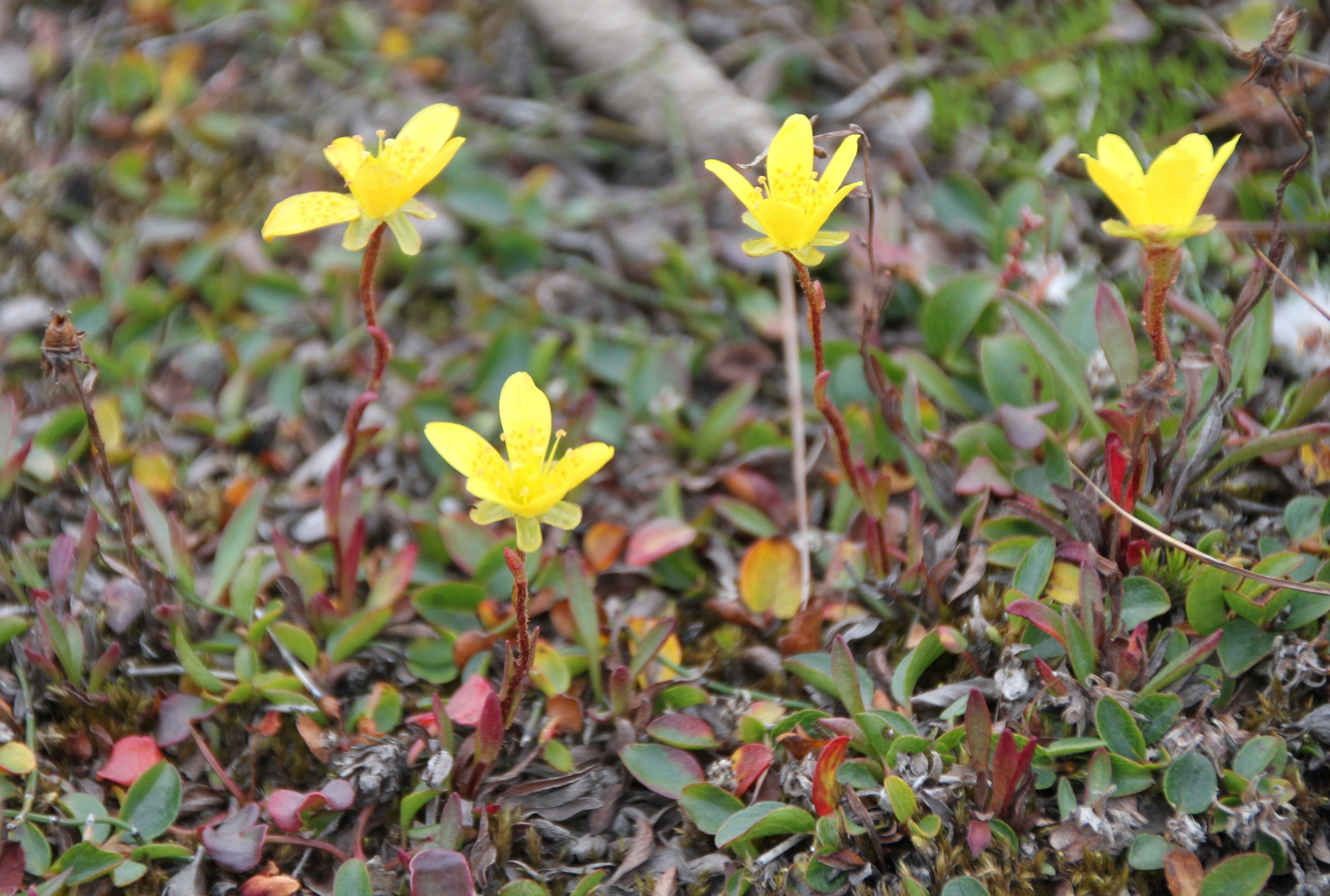 Saxifrage (Saxifraga hirculus subsp. compacta) flowers observed at island of Spitsbergen, Svalbard (Norway). August,, 2012.